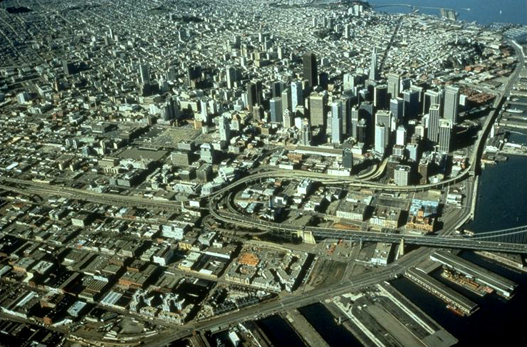 Junctions and ramps connecting I-80 and I-480 in San Francisco from 1959-1989